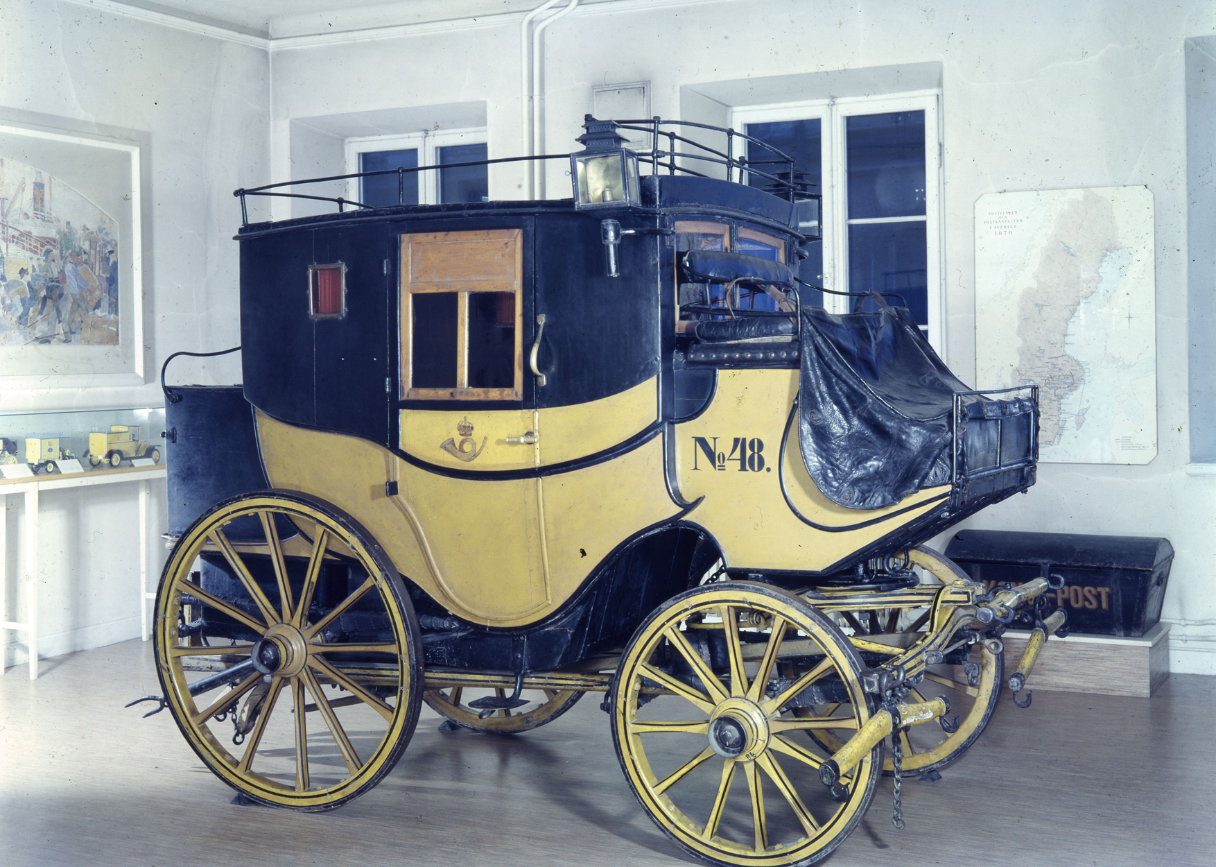 Swedish mailcoach from 1860´s